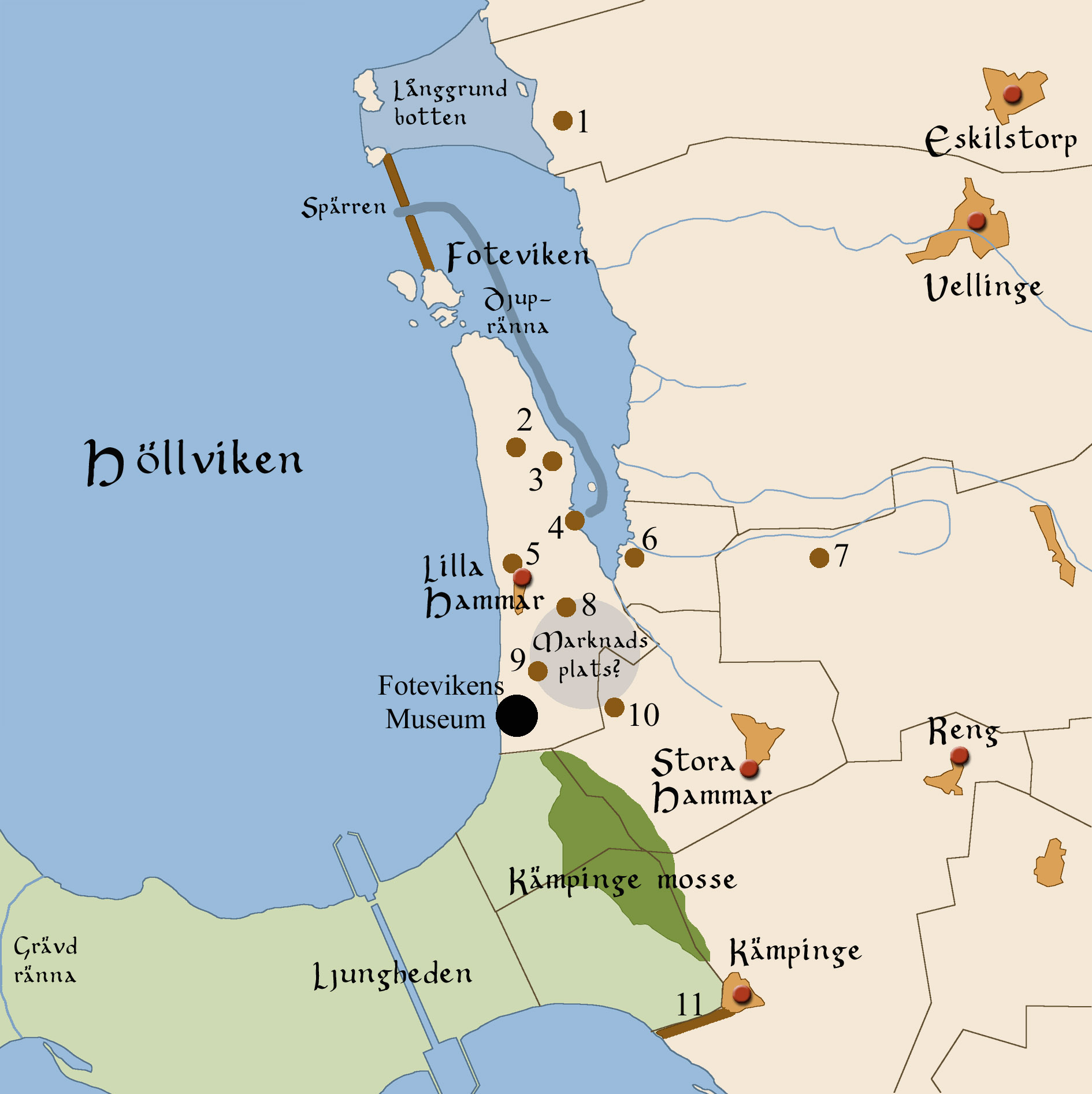 Map of Viking places around the bay of Foteviken in Scania, Sweden.